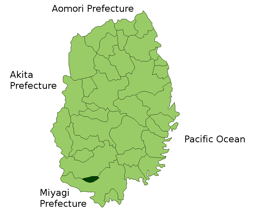 Location Map of Hiraizumi in Iwate Prefecture, Japan